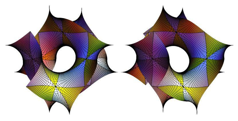 It's a stereoscopic drawing that I made, using computer graphics in Mathematica, of the gyroid minimal surface (unit cell).